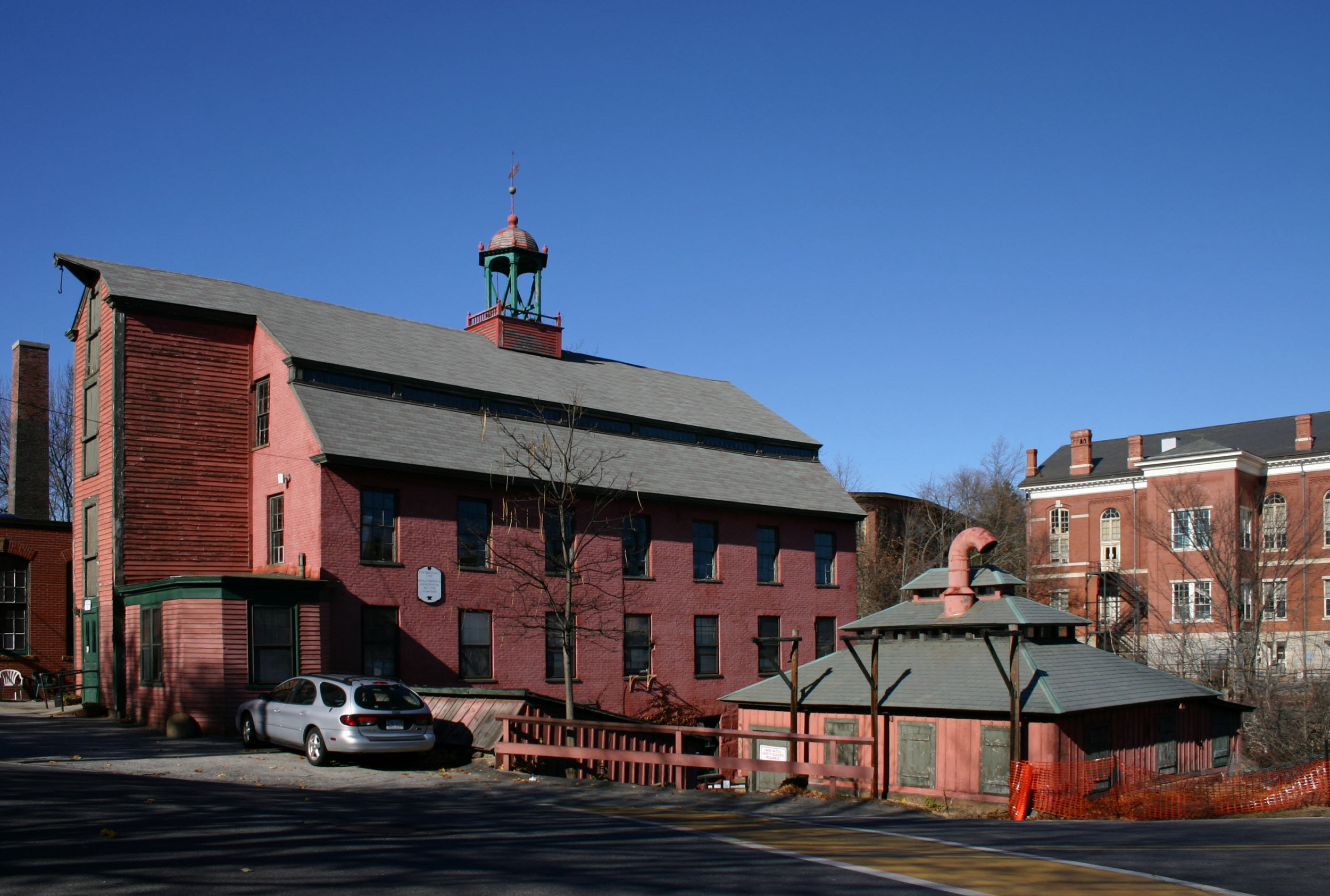 1826 Brick Mill and James Fletcher's Forge, Whitinsville, Mass.